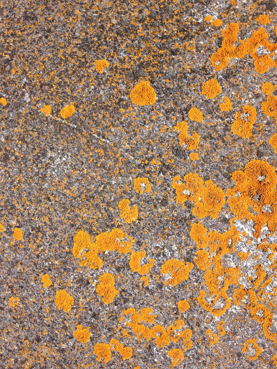 Lichen on a islet in Roslagen in the Stockholm archipelago, 2014.